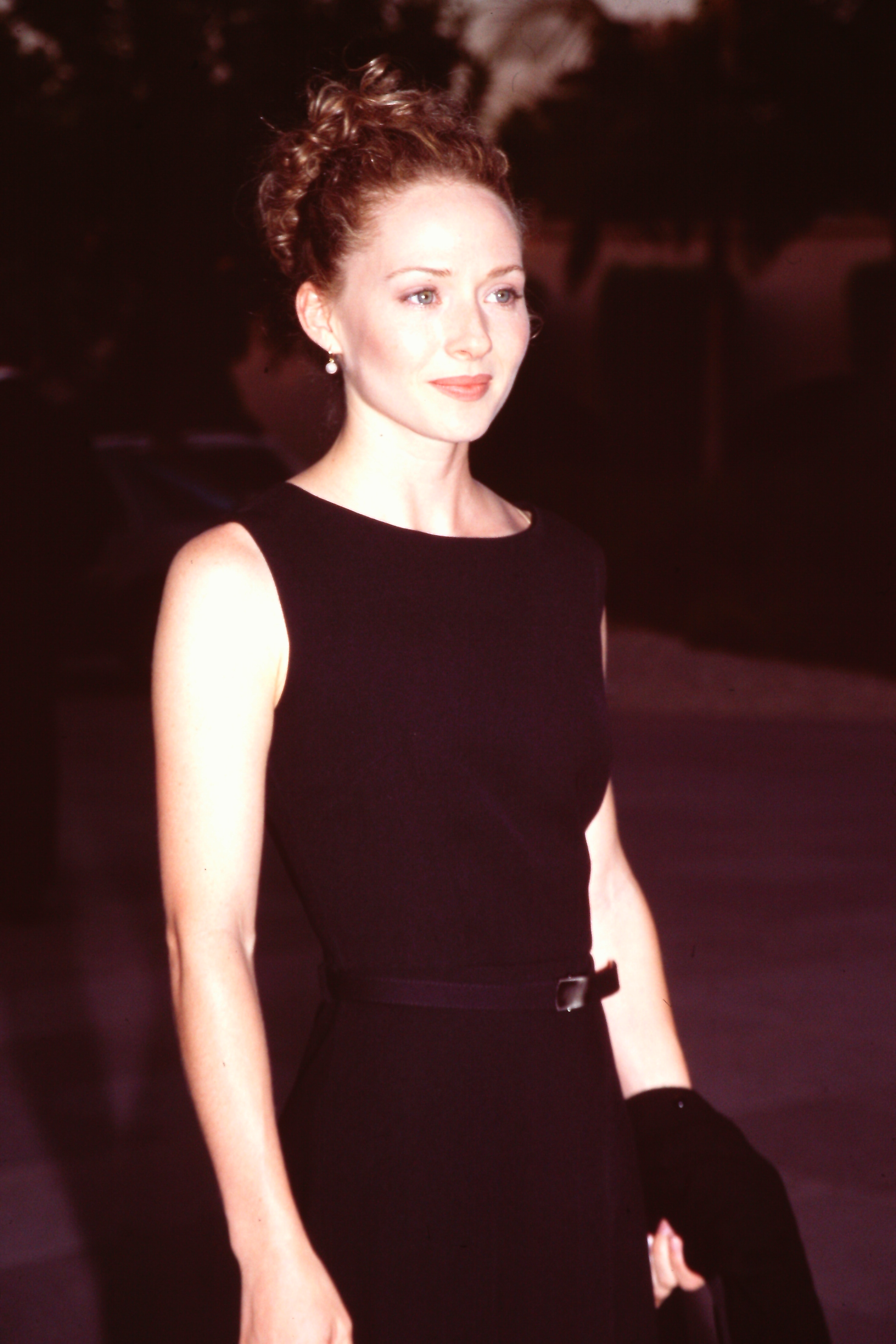 Maria Pitillo - FOX Premiere Party. 07/14/1995 Photo by Kathy Hutchins